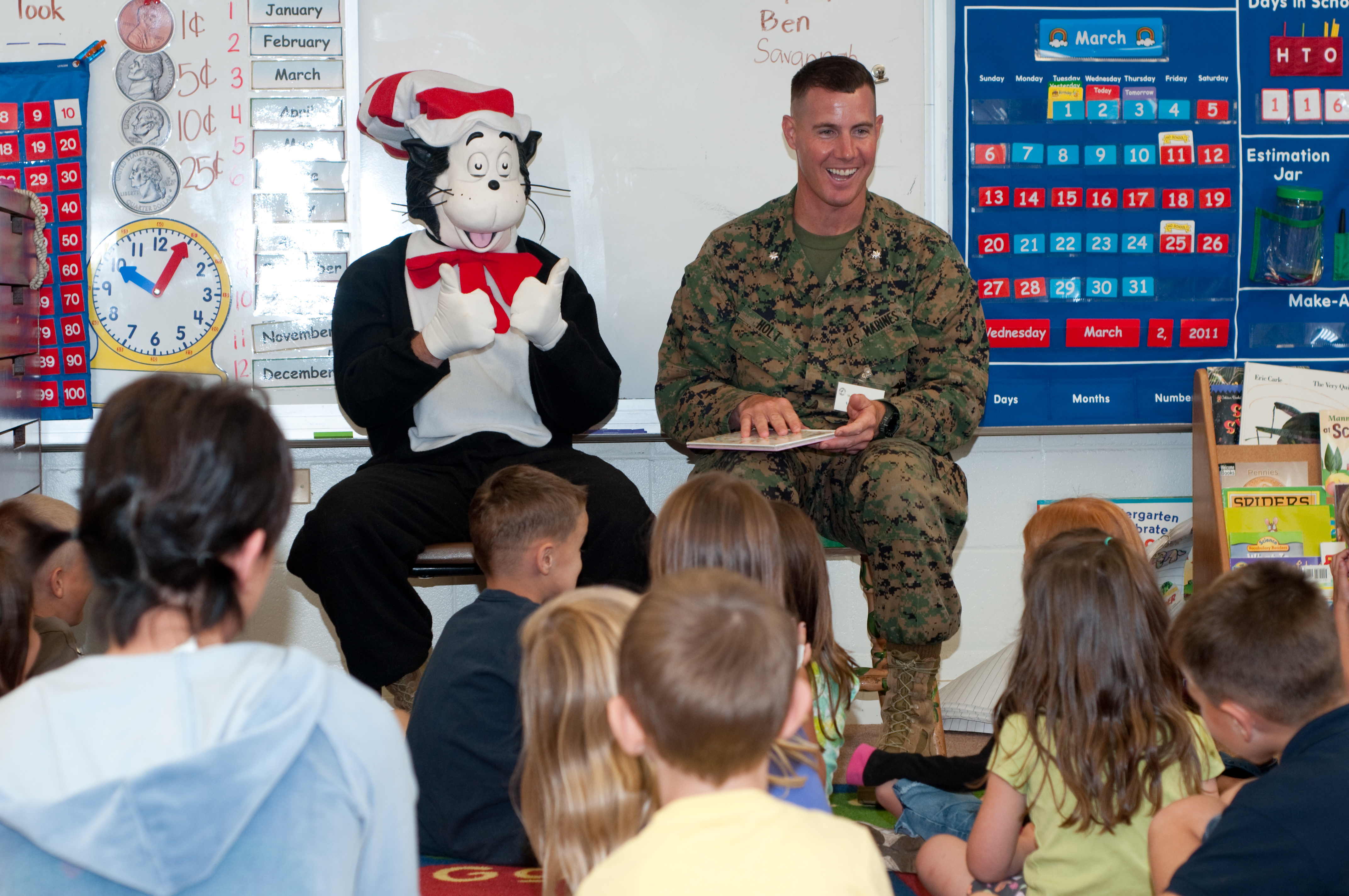 Celebrating Dr. Seuss's birthday, Lt. Col. Jeffrey C. Holt, commanding officer, 3rd Battalion, 3rd Marine Regiment and the "Cat in the Hat" read stories to Mokapu Elementary School students, March 2. The celebration is part of the National Education Association's "Read Across America" program, encouraging children to read.